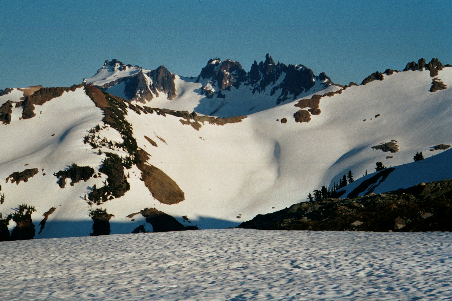 Gilbert Peak Description: Gilbert Peak (8184', left) is the highest in Goat Rocks Wilderness. At the center is Goat Citadel (8000') and to its right are the horns, the highest being Big Horn (7850'). Viewpoint location: Pt. 6960+', 350 meters southeast of Elk Pass. Lat/Long: 46.5359°N, 121.4524°W (WGS84/NAD83) USGS Old Snowy Mountain Quad [1] Viewpoint elevation: 6320 feet View direction: Southeast Date and time: 2002.06.12 20:00 PDT Camera: Olympus 35 mm Photographer: Walter Siegmund ©2005 Walter Siegmund